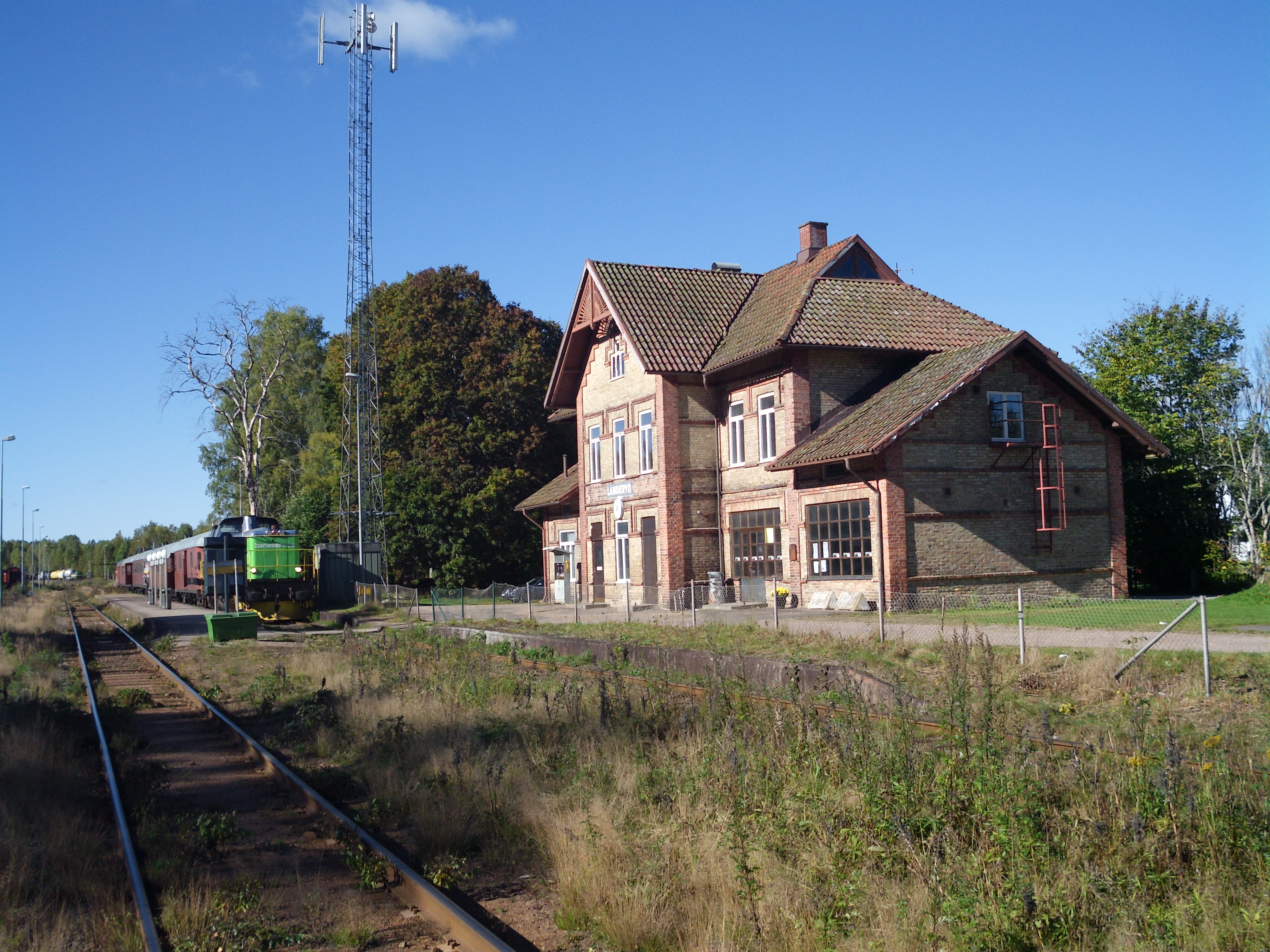 Tourist train at a station in Landeryd, Sweden.